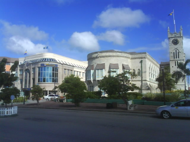 (National Heroes' Square, Broad Street), Bridgetown, Barbados. In the background: a branch of the Royal Bank of Canada and the (west-wing) of the Parliament of Barbados.